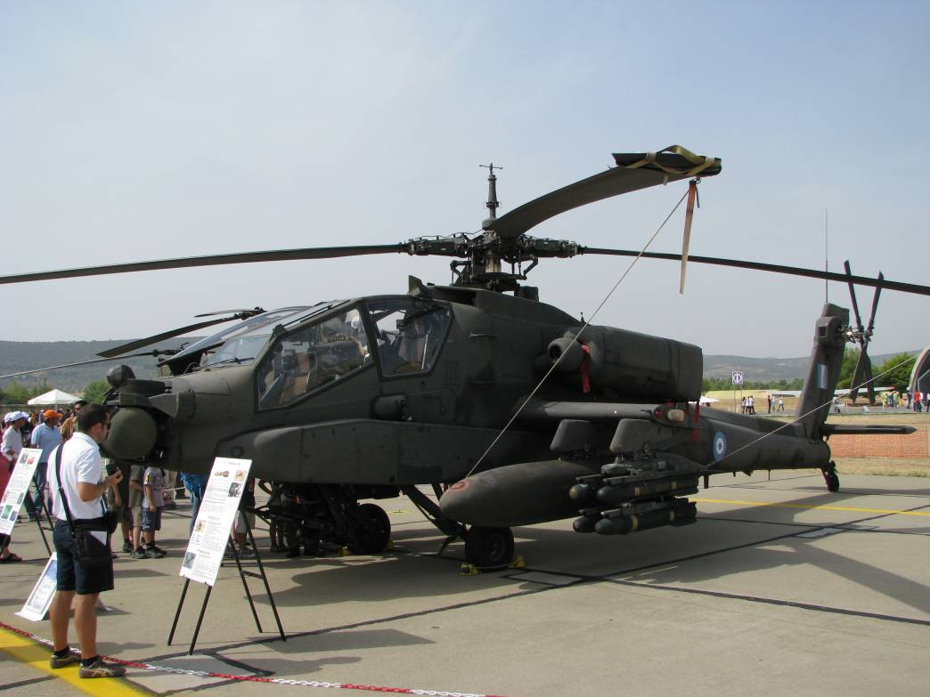 A Hellenic Army AH-64D Apache LongBow displayed at the 2008 HAF air show, in Tanagra airbase, Greece